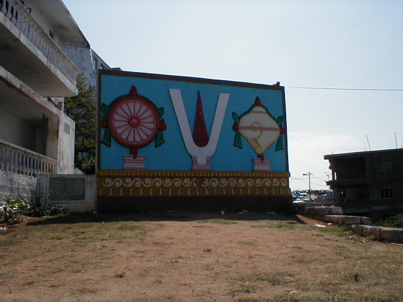 YadaGiri Gutta Photos